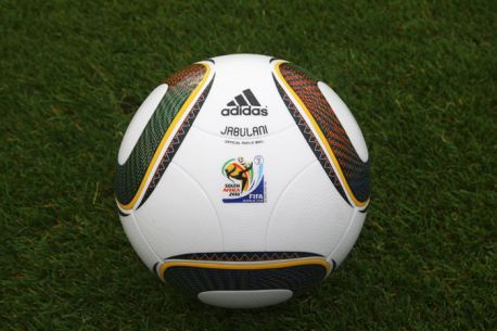 The official match ball for next summer's World Cup, the Jabulani